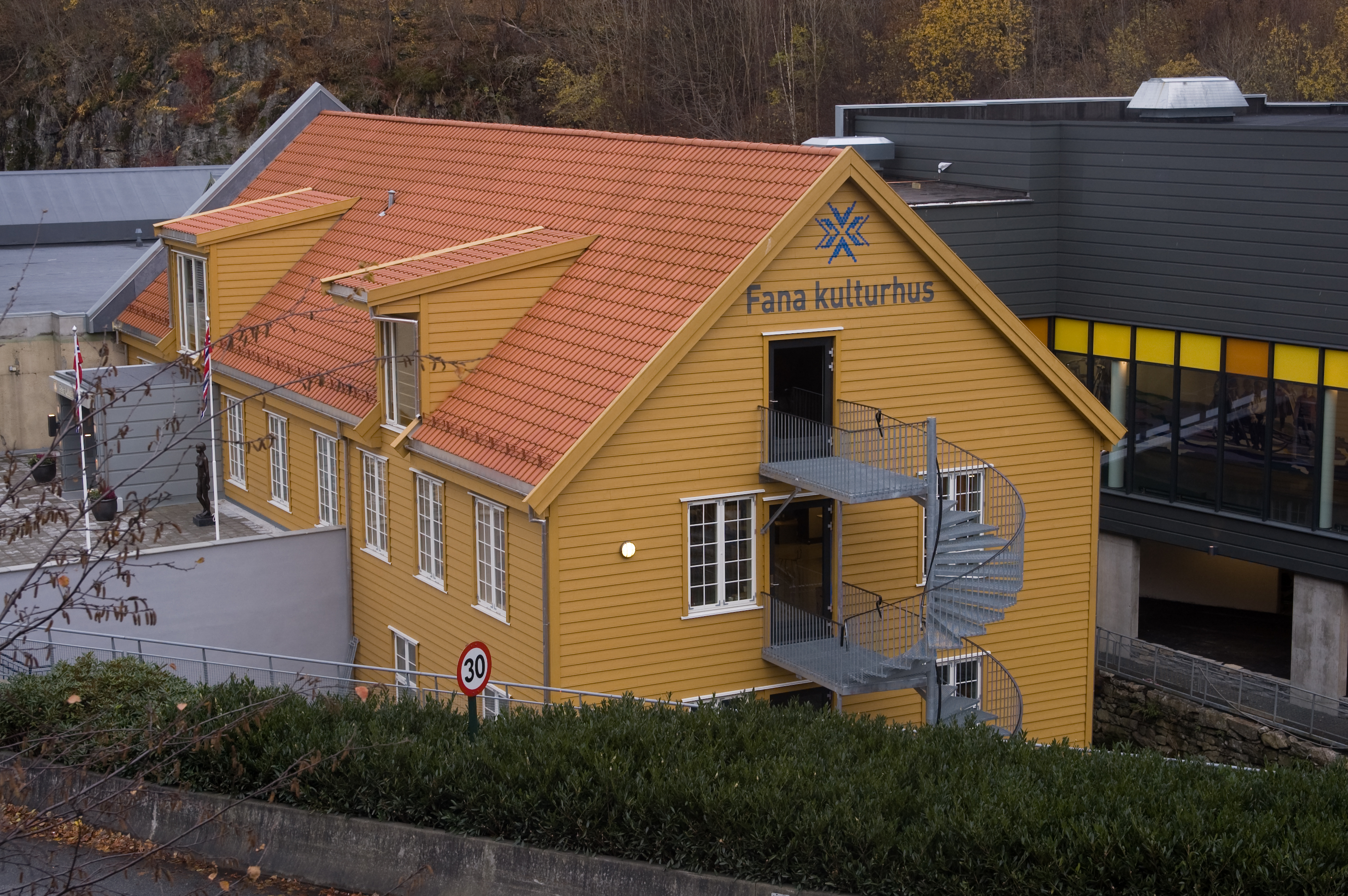 The new cultural centre in Nesttun, Bergen, Norway.